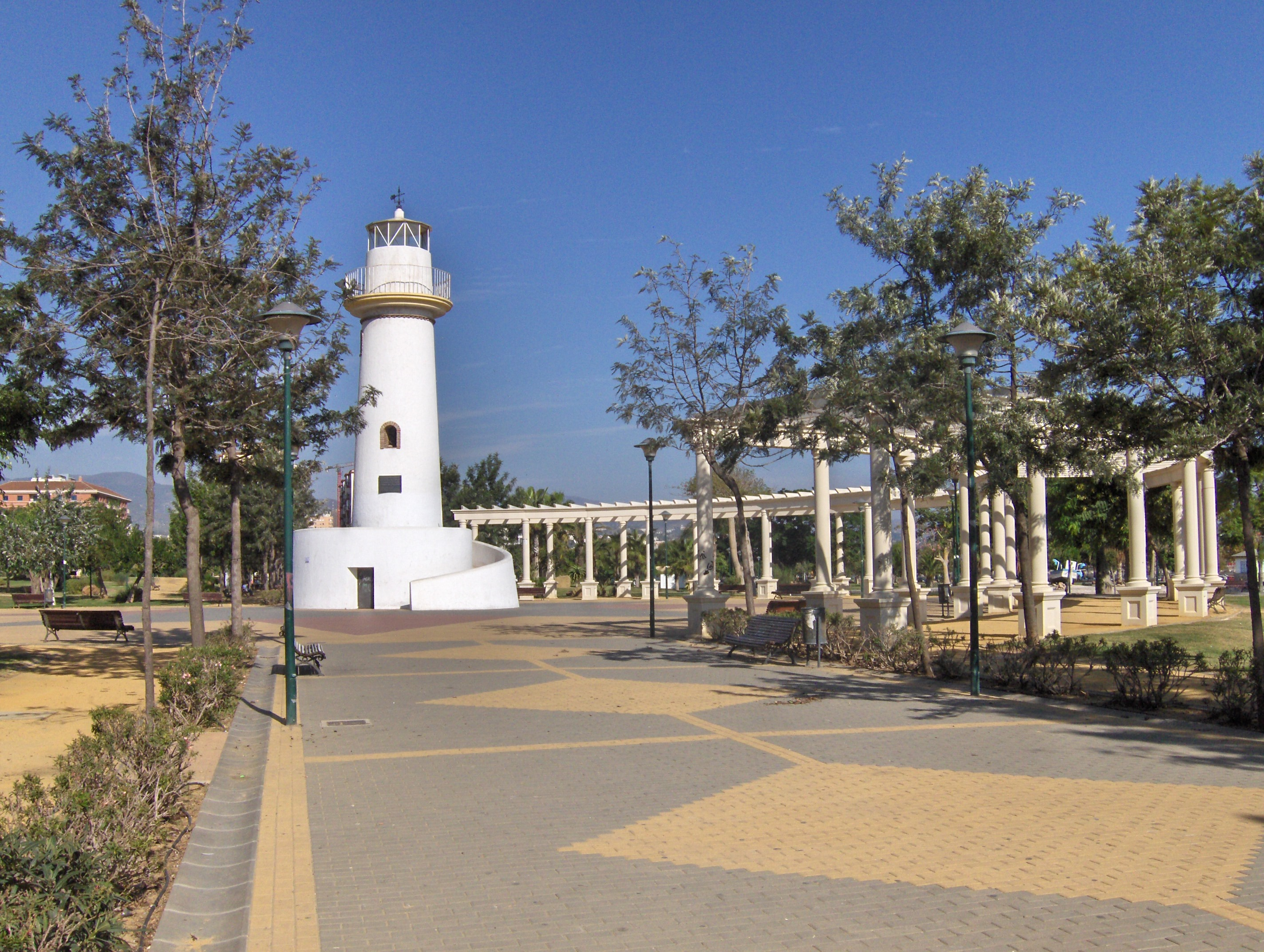 Parque de Huelin, Málaga.